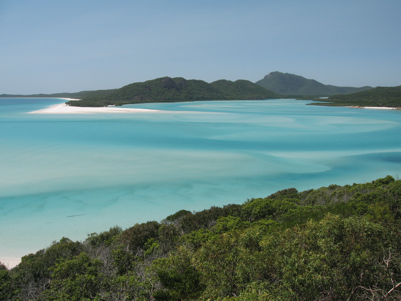 A view across and into Hill Inlet on Whitsunday Island. The beach on the top left is Whitehaven beach.